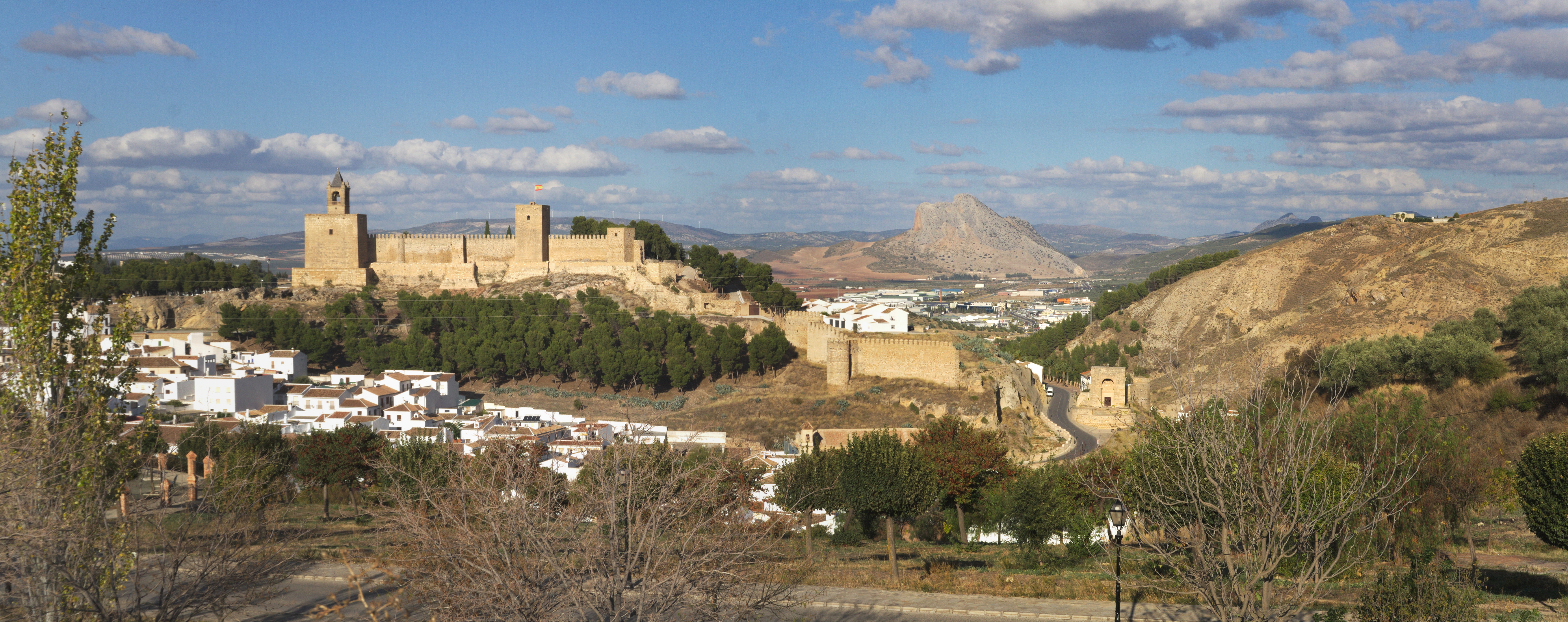 Antequera: Alcazaba and Peña de los Enamorados